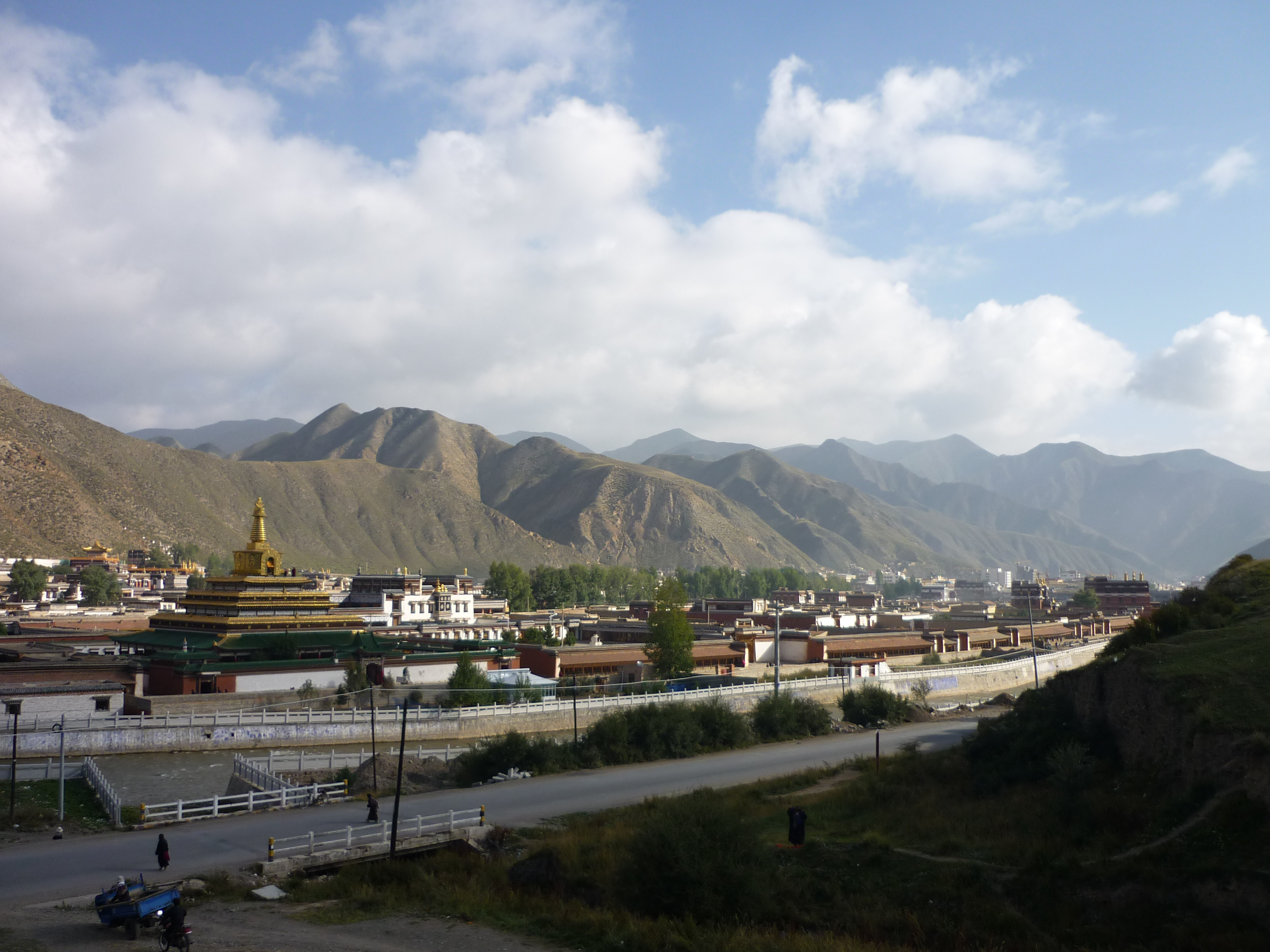 Labrang Monastery (Tibetan: བླ་བྲང་བཀྲ་ཤིས་འཁྱིལ་ Wylie: bla-brang bkra-shis-'khyil